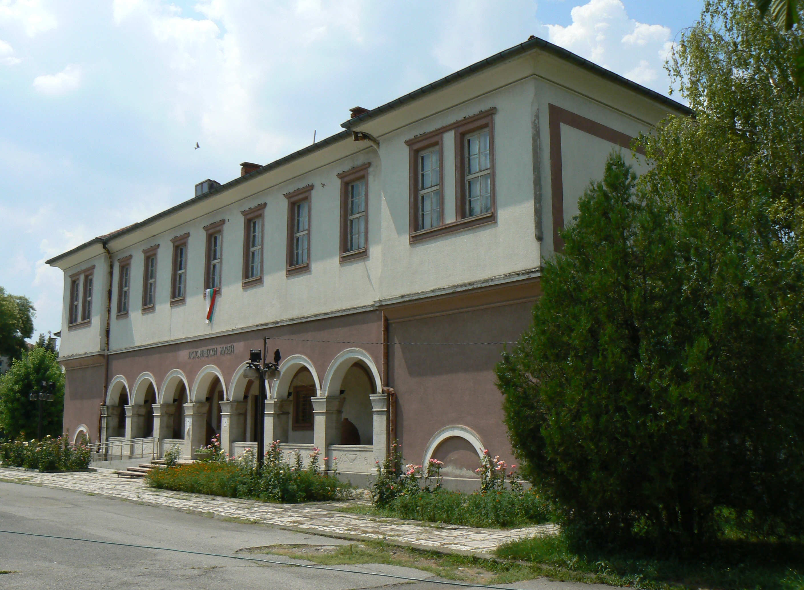 The History Museum of Nova Zagora, Bulgaria